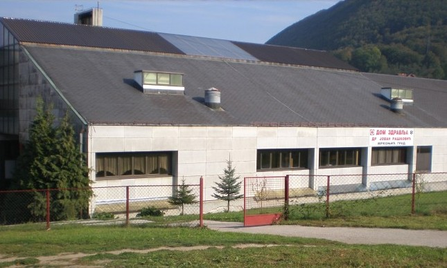 Hospital in Mrkonjić Grad